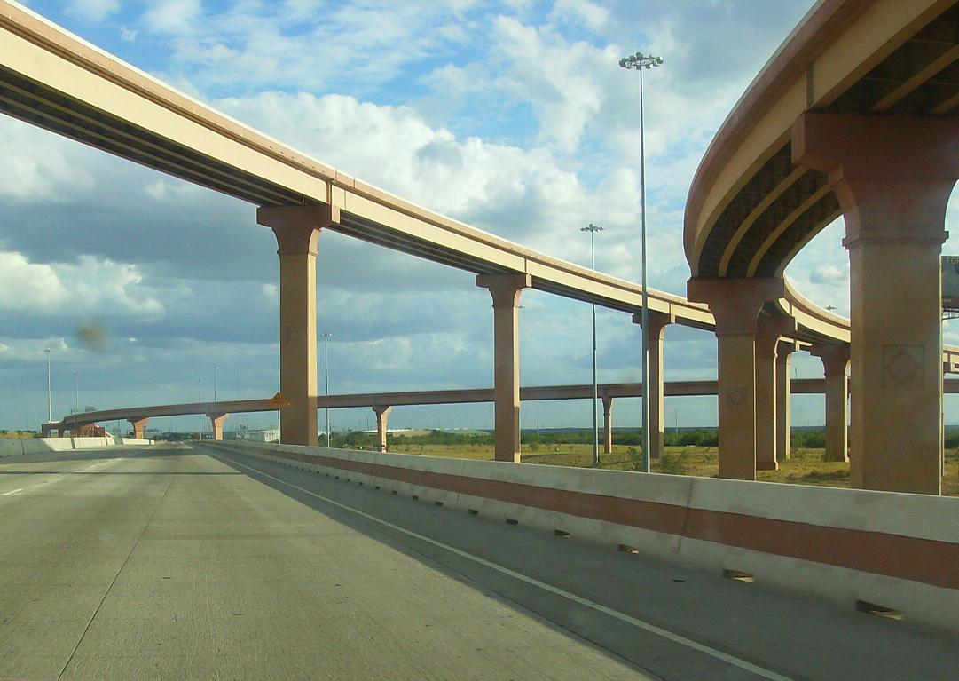 IH 35 and Loop 20 Intersection in Laredo, Texas